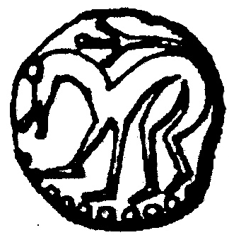 The beast (most commonly described as a dog or lion) symbol found on the sceat coins of King Aldfrith of Northumbria (reigned 685–704x705)